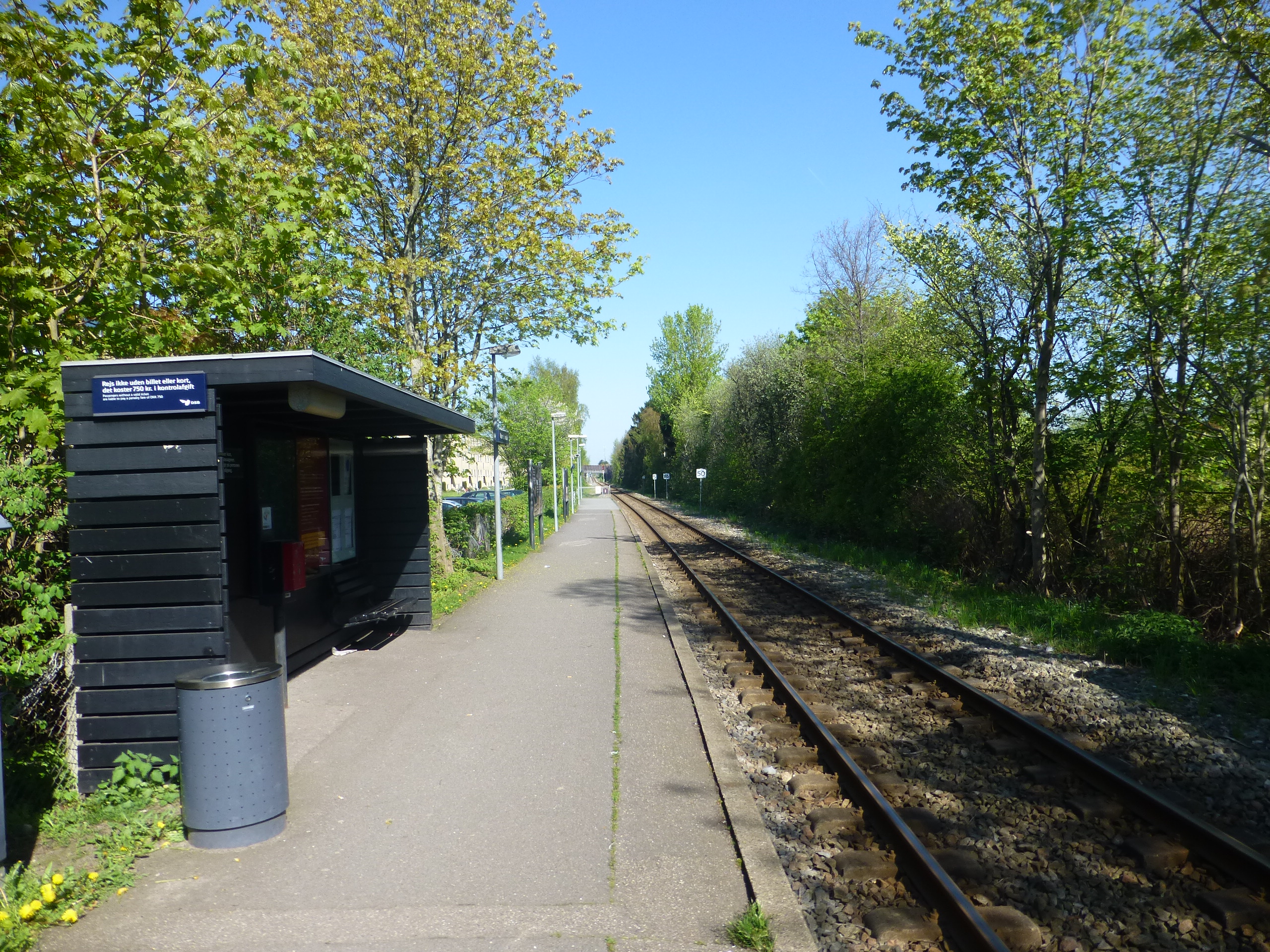 Vestre Strandalle Station on Grenaabanen in Aarhus in Denmark.